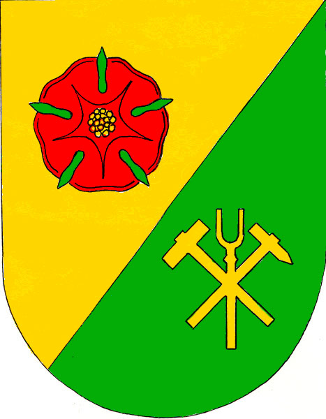 Municipal coat of arms of Strašice village, Rokycany District, Czech Republic.